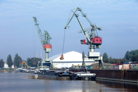 Schiffsgüterumschlag Bayernhafen Regensburg